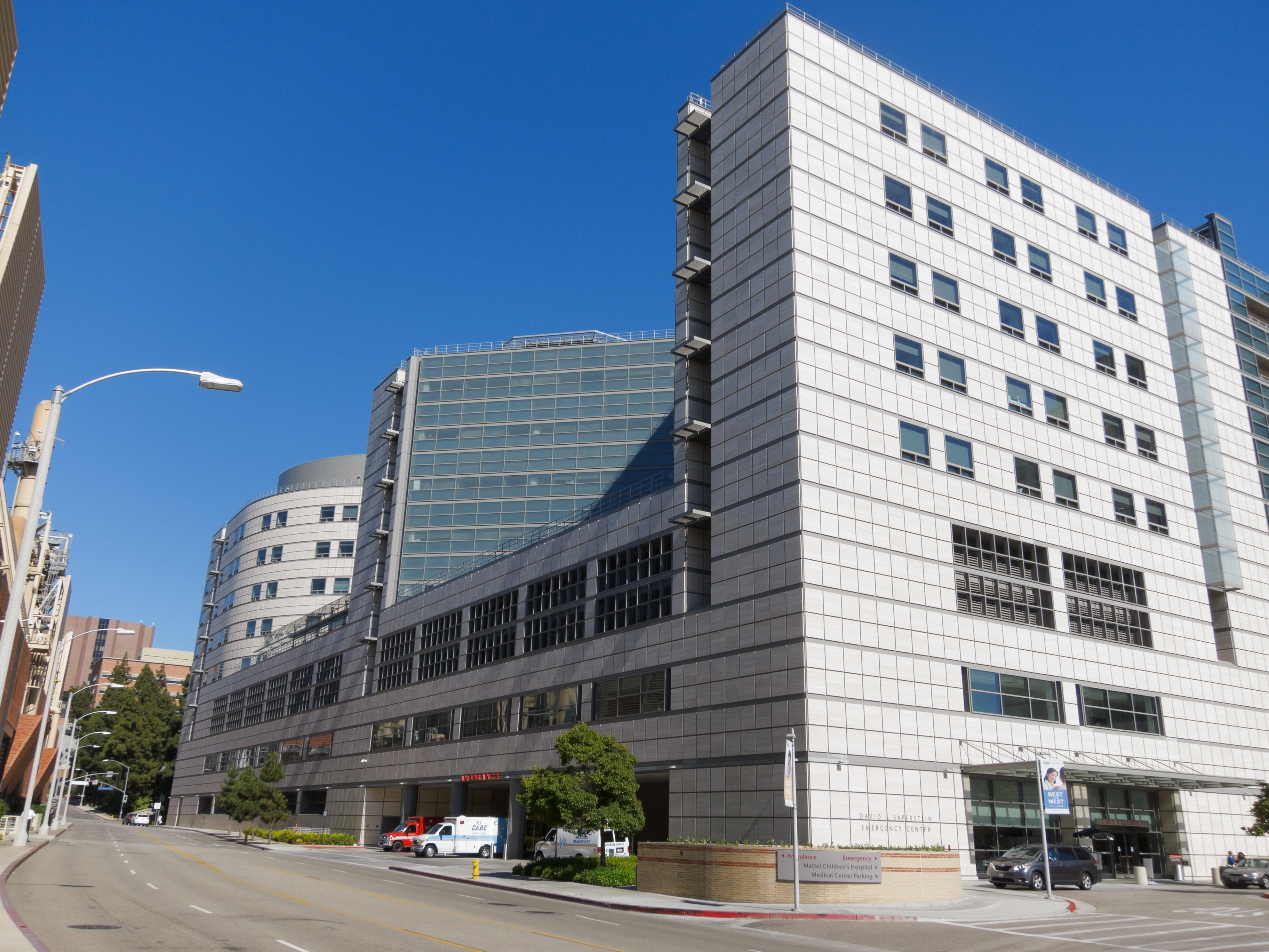 Ronald Reagan UCLA Medical Center on University of California campus.